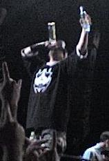 2 Tuff Tony at the Tempest Release Party at the Electric Factory in Philadelphia.